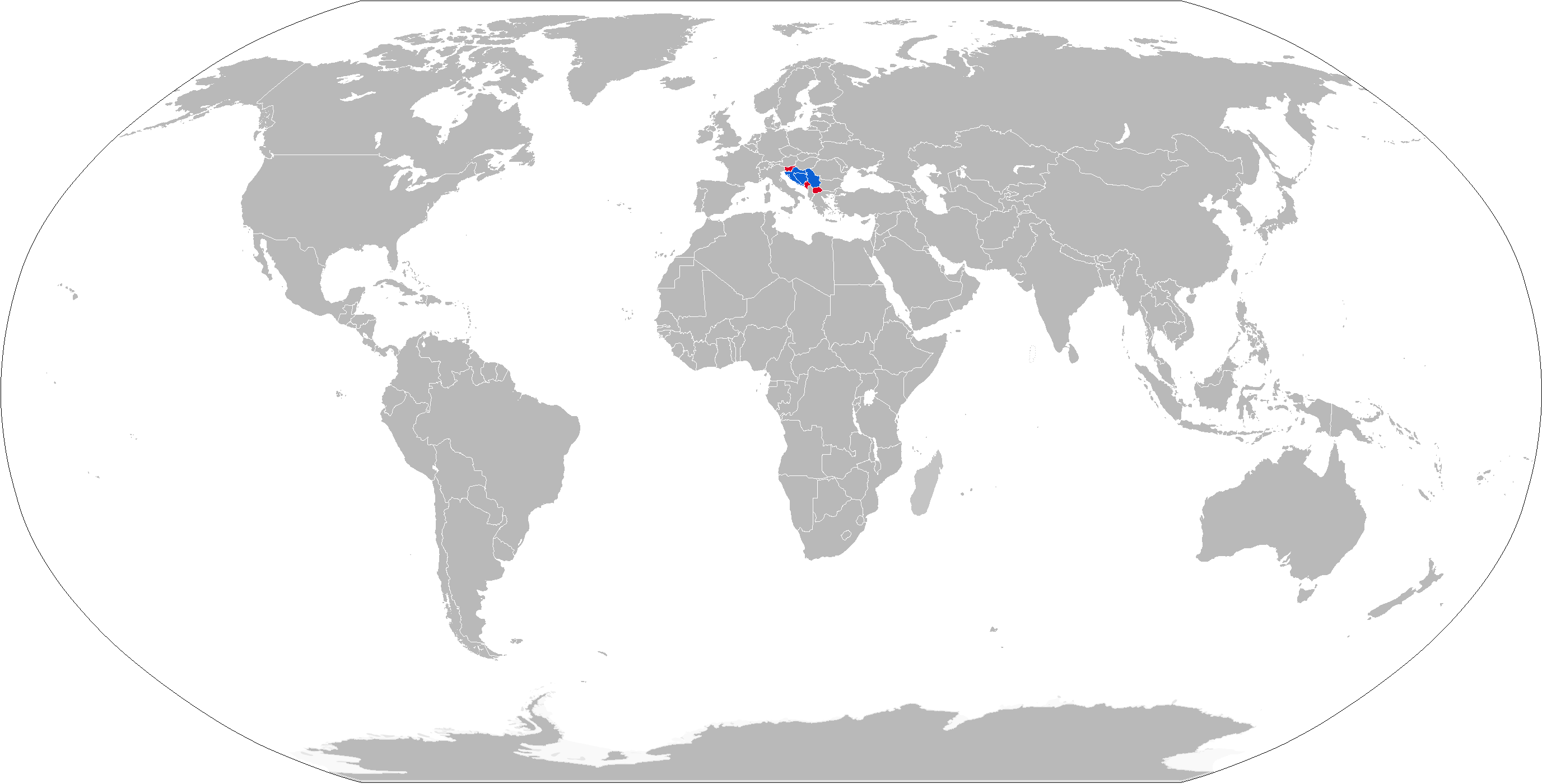 Map with M-77 operators in blue and former operators in red.